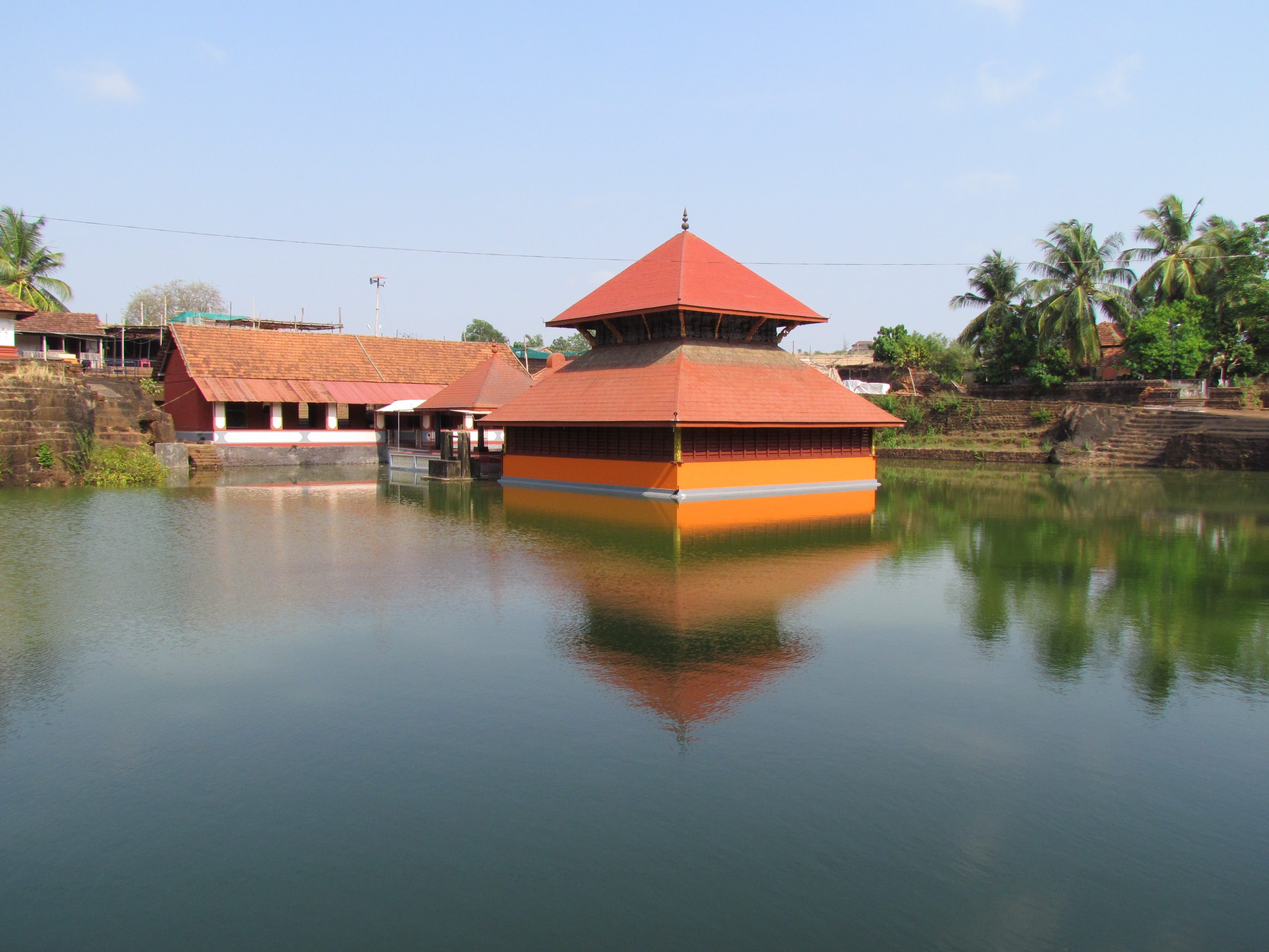 The only lake temple in Kerala